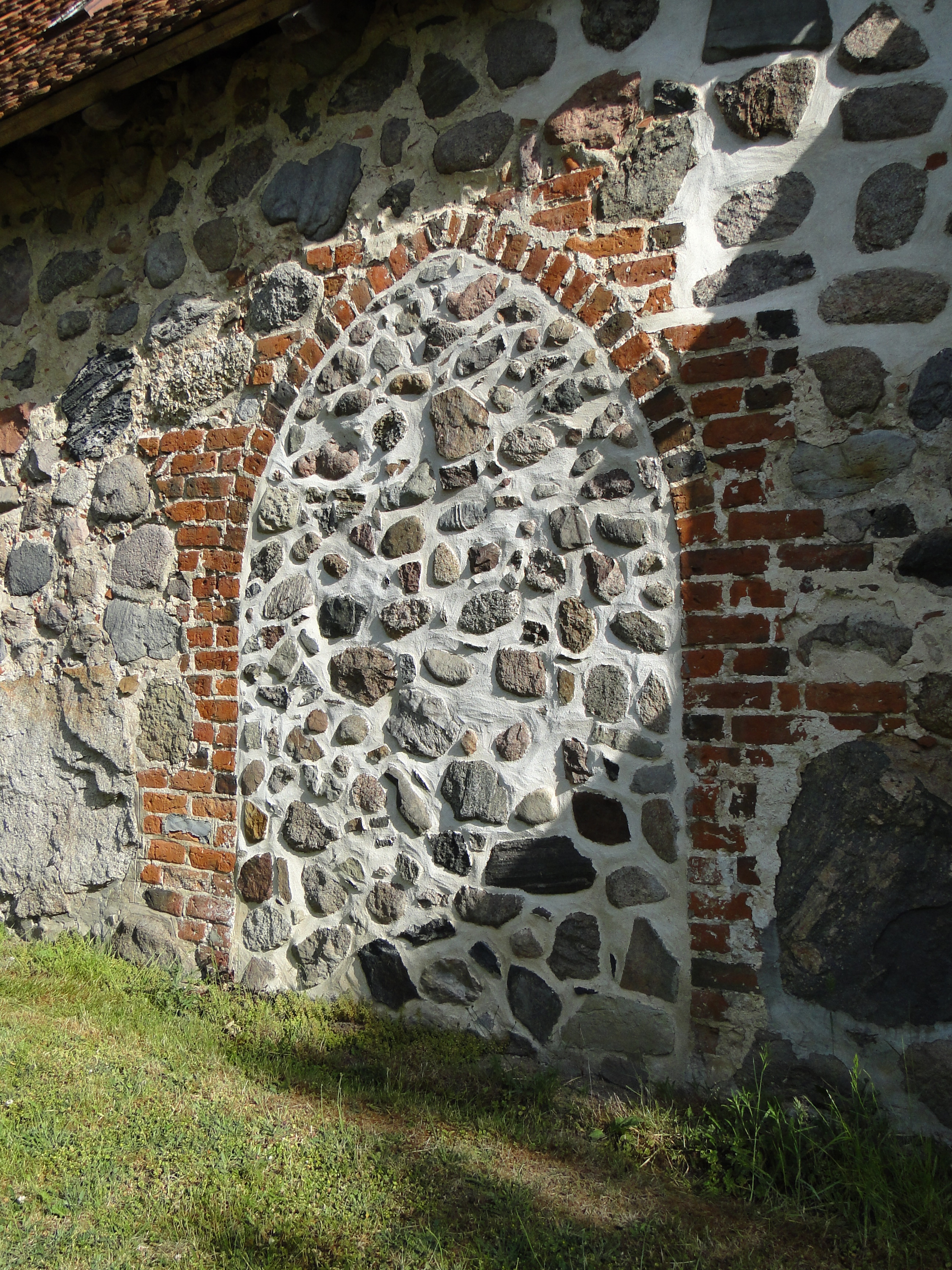 Church in Wessin, district Ludwigslust-Parchim, Mecklenburg-Vorpommern, Germany